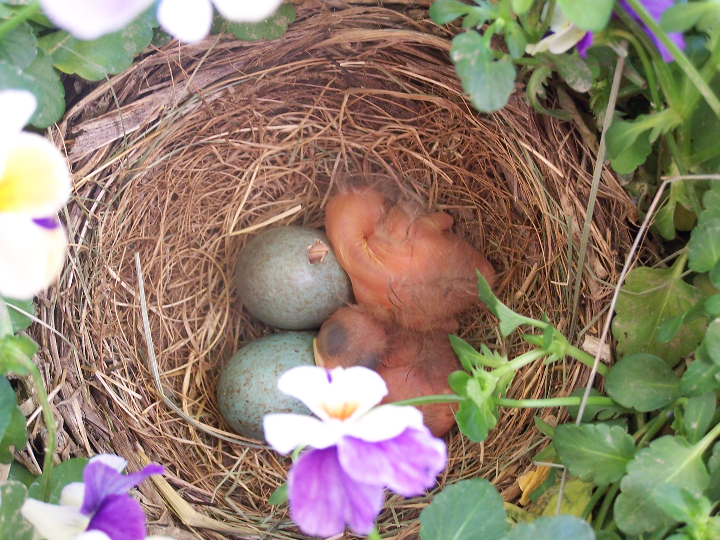 the first hours of life merli.Licenza Creative Commons Attribution 3.0 (CC-BY-3.0). Notes: This is the first brood of blackbirds had the flowerpot on the windowsill of my house . the hatching has begun the week before Easter of this year 2011 and the birth took place on 1/05/2011.La pair of blackbirds has enabled us to maintain daily routines such as: cleaning the terrace, cut the grass, photograph them in several occasions feeling safe at all times so the fact is that this finite and small broods left the nest, I removed the nest to be able to keep thinking of having lived a wonderful experience natura.Qualche days after the blackbird was remade to see and "screaming" , before me, and later to my wife, and struggling to remake the nest made ​​in a hurry for a new hatching of 2 small uova.Attualmente have 6 days of life.